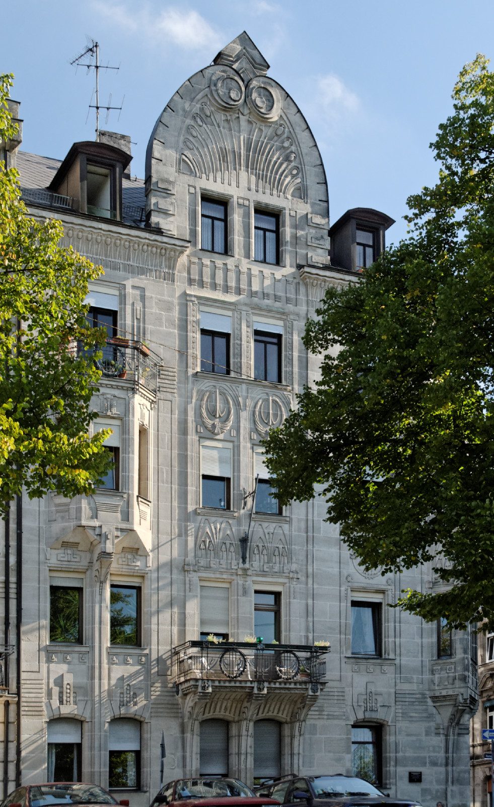 House Zähstraße 4 in Fürth, Germany